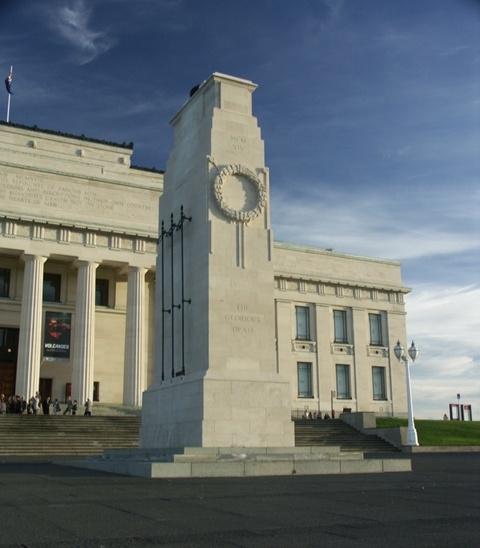 Cenotaph in front of the Auckland War Memorial Museum.